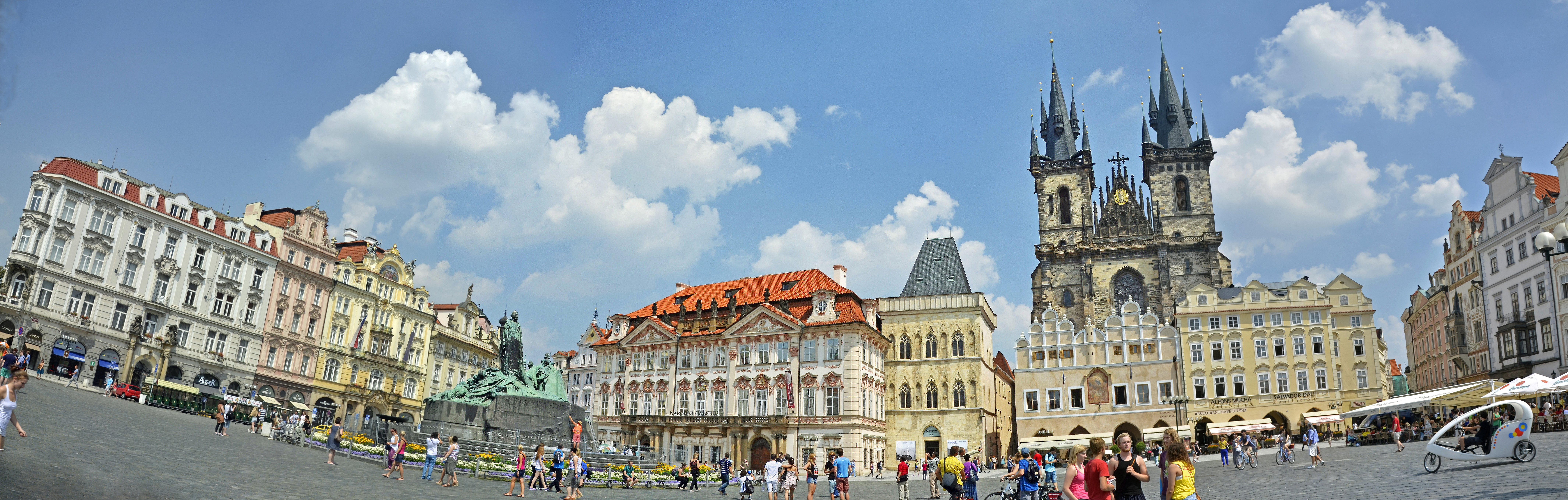 Prague (Praha, CZ) - Karlsplatz (Karlovo nám) (Panorama)